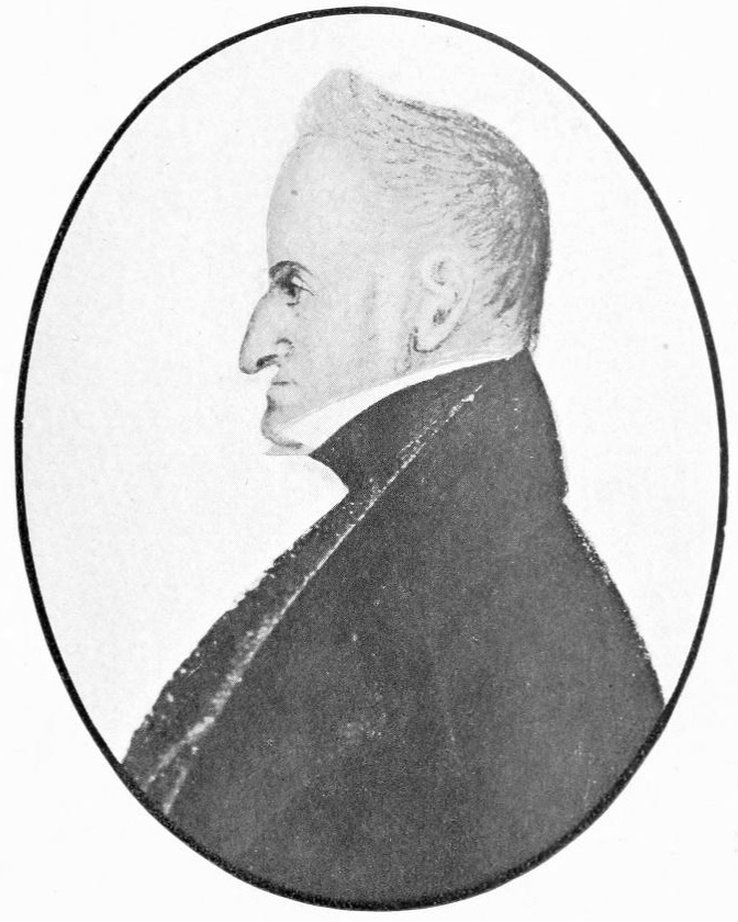 Mark Anthony DeWolf, father of all DeWolfs from Rhode Island and the 4th generation from Balthasar DeWolf of Lime, Connecticut